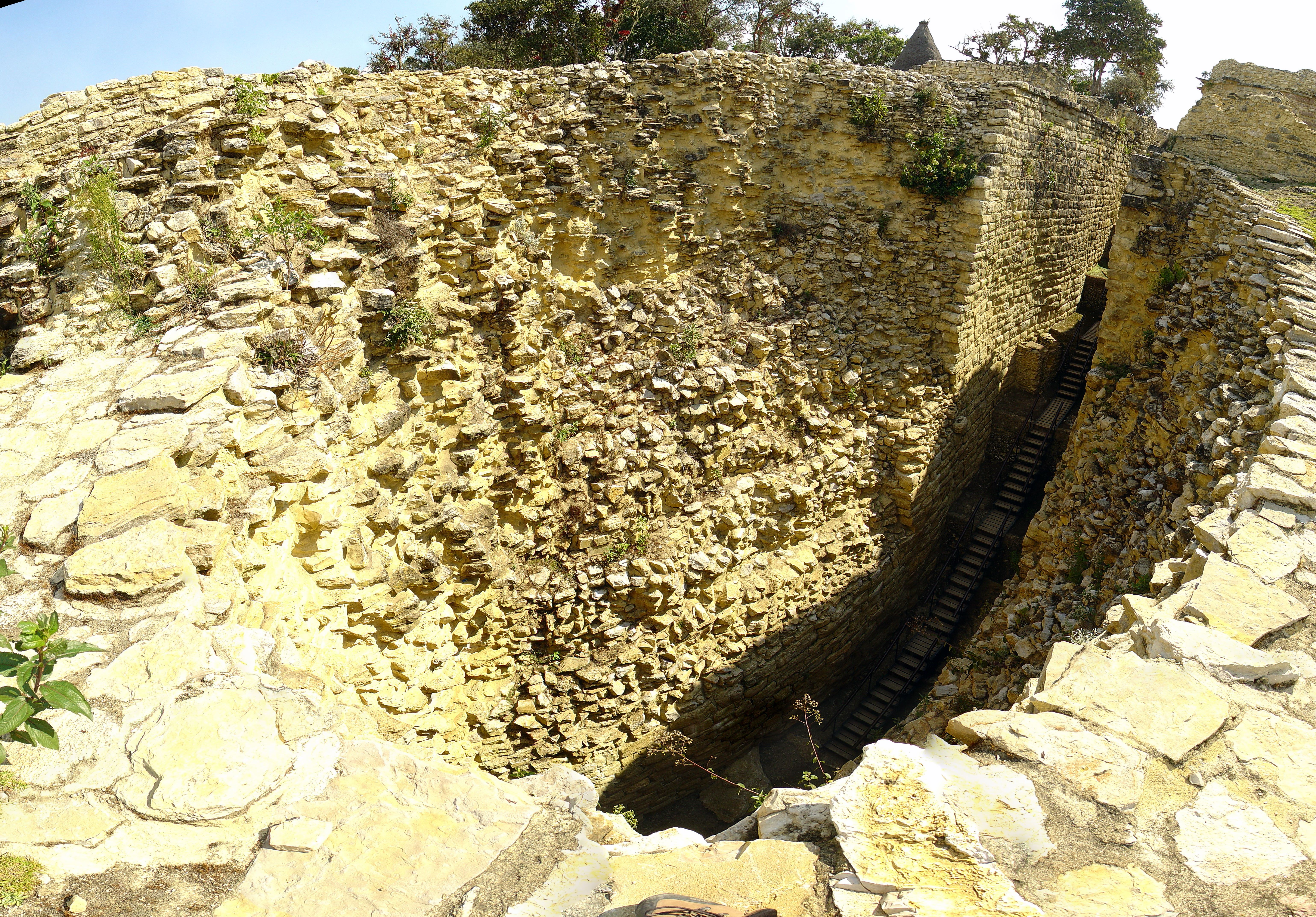 Main entrance of the Kuelap forteress